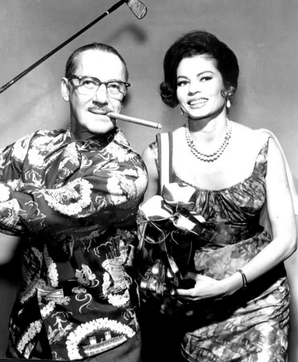 Photo of Groucho Marx and Eden Hartford Marx (his wife at the time) from the television program The Chrysler Theatre. The presentation they were both part of was called Time for Elizabeth.